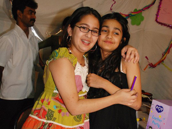 Amrita Singh's Children's Mela